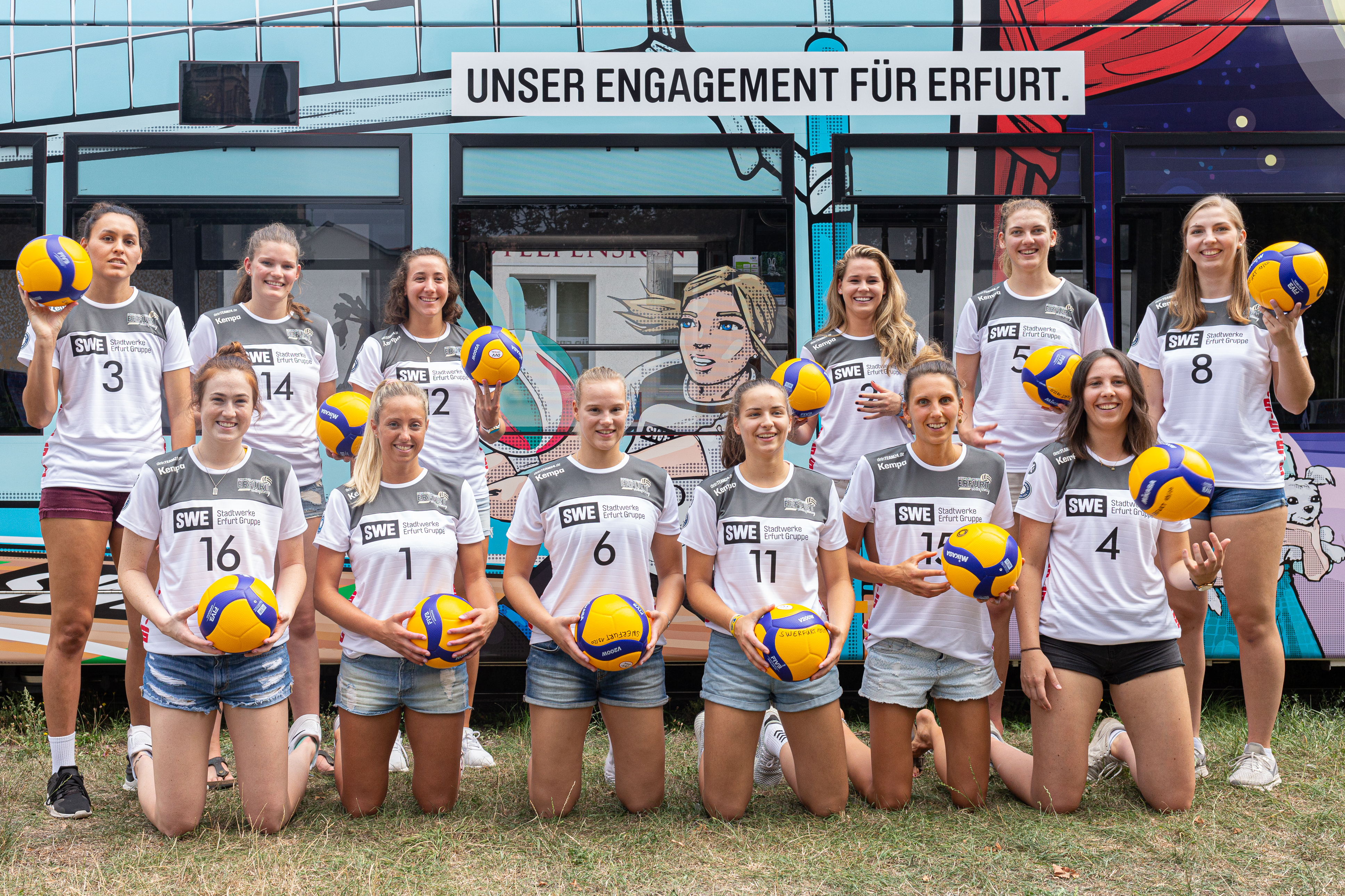 Volleyball, German First League Women, Schwarz-Weiss Erfurt Volleyteam, team presentation